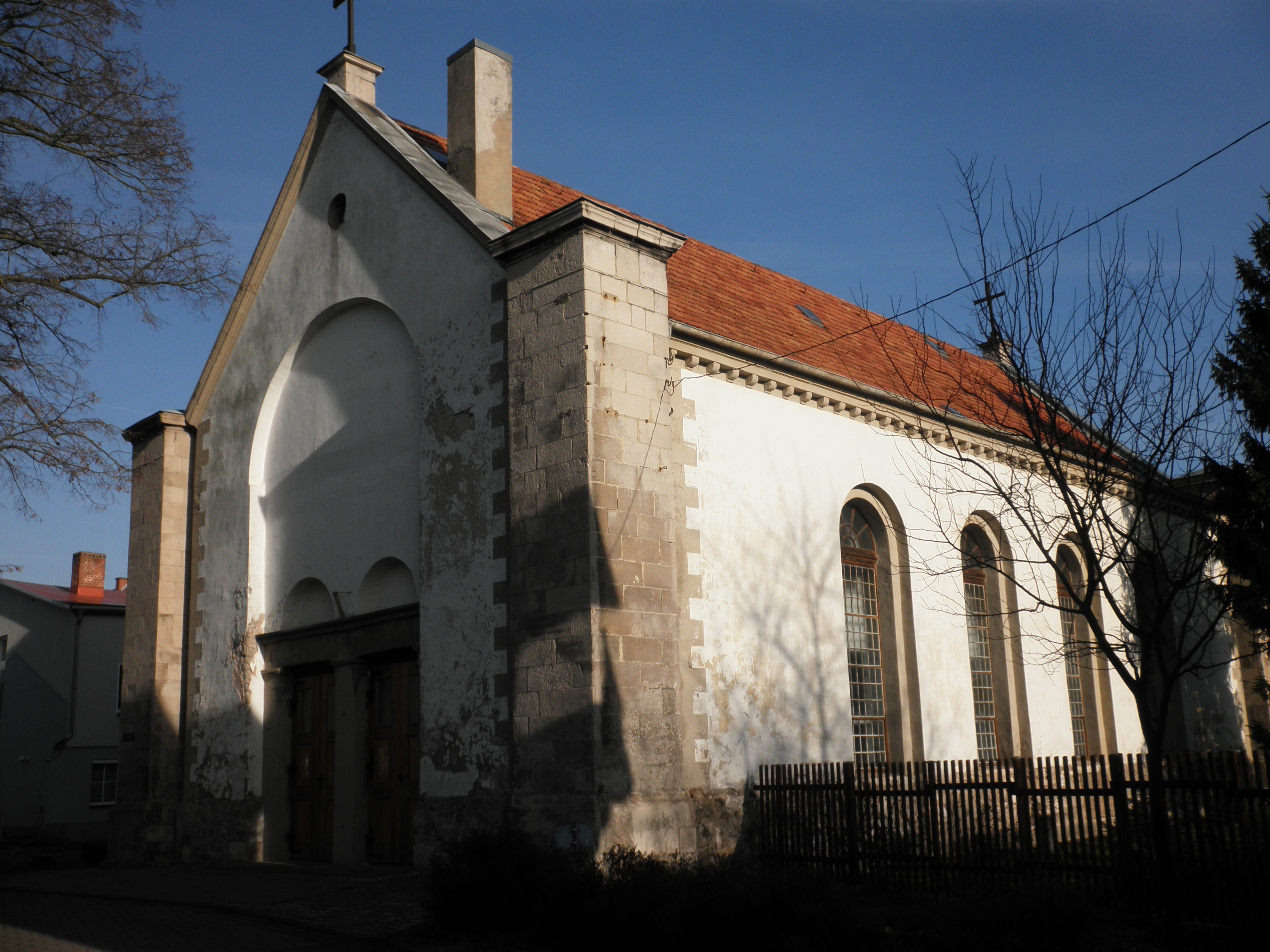 Church in Salza (Nordhausen) in Thuringia